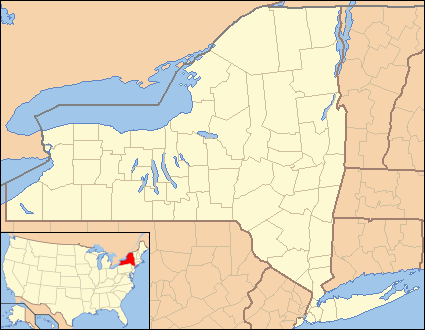 Locator Map of New York, United States